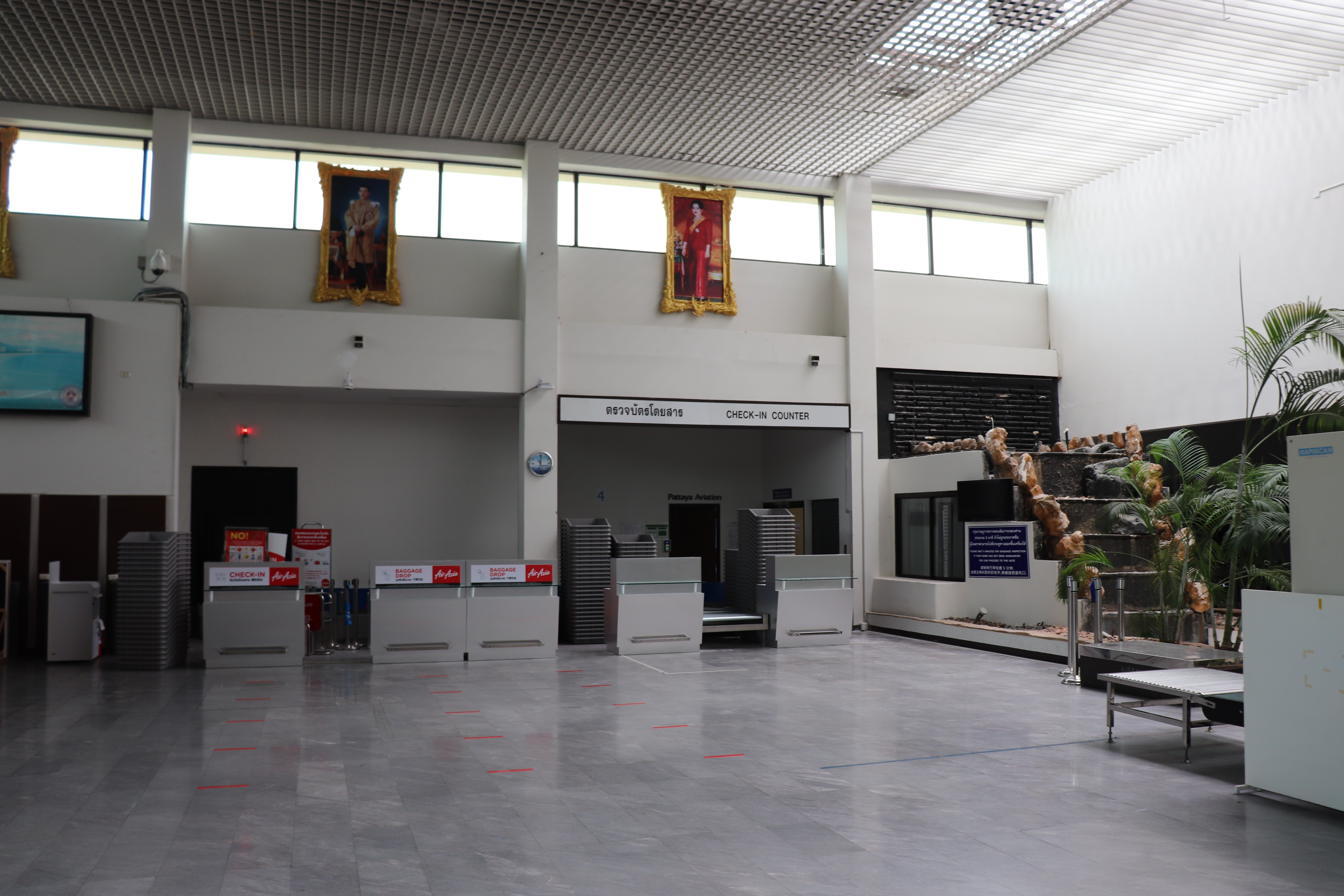 Checkin Counter at Hua Hin Airport